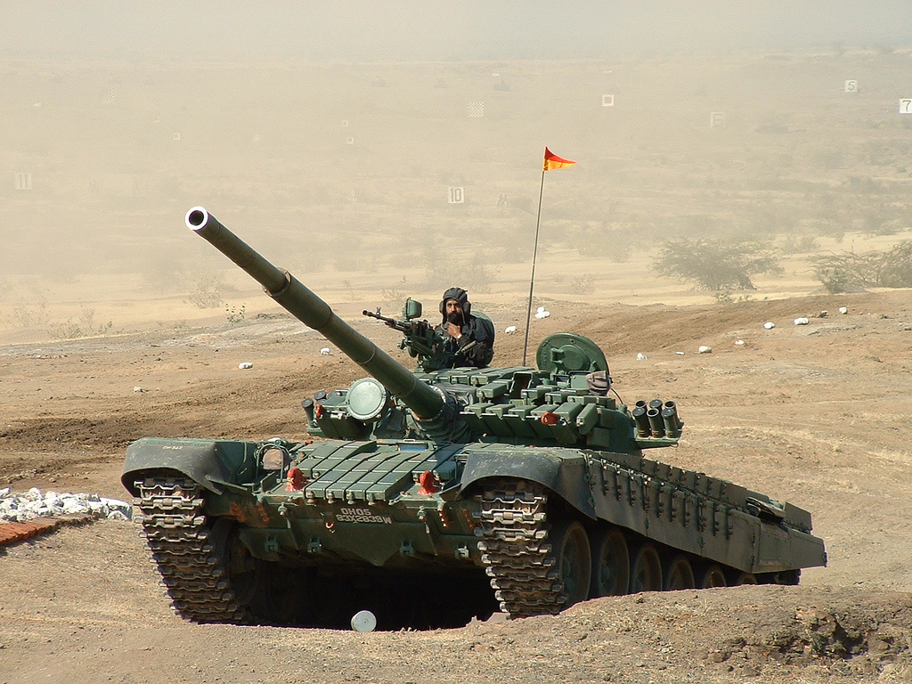 T-72 Ajeya tank of the Indian Army.